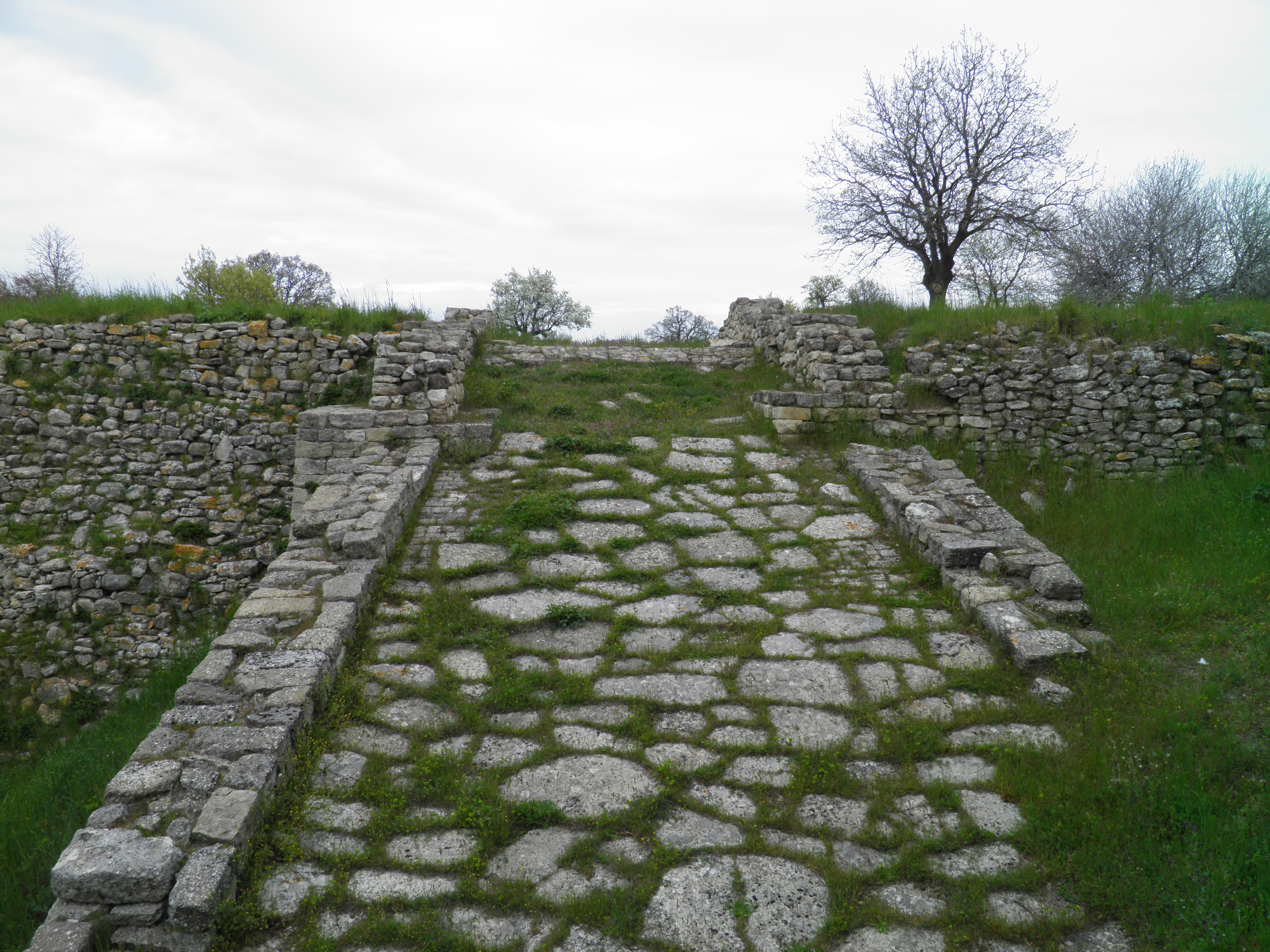 Troy (Ilion), Turkey